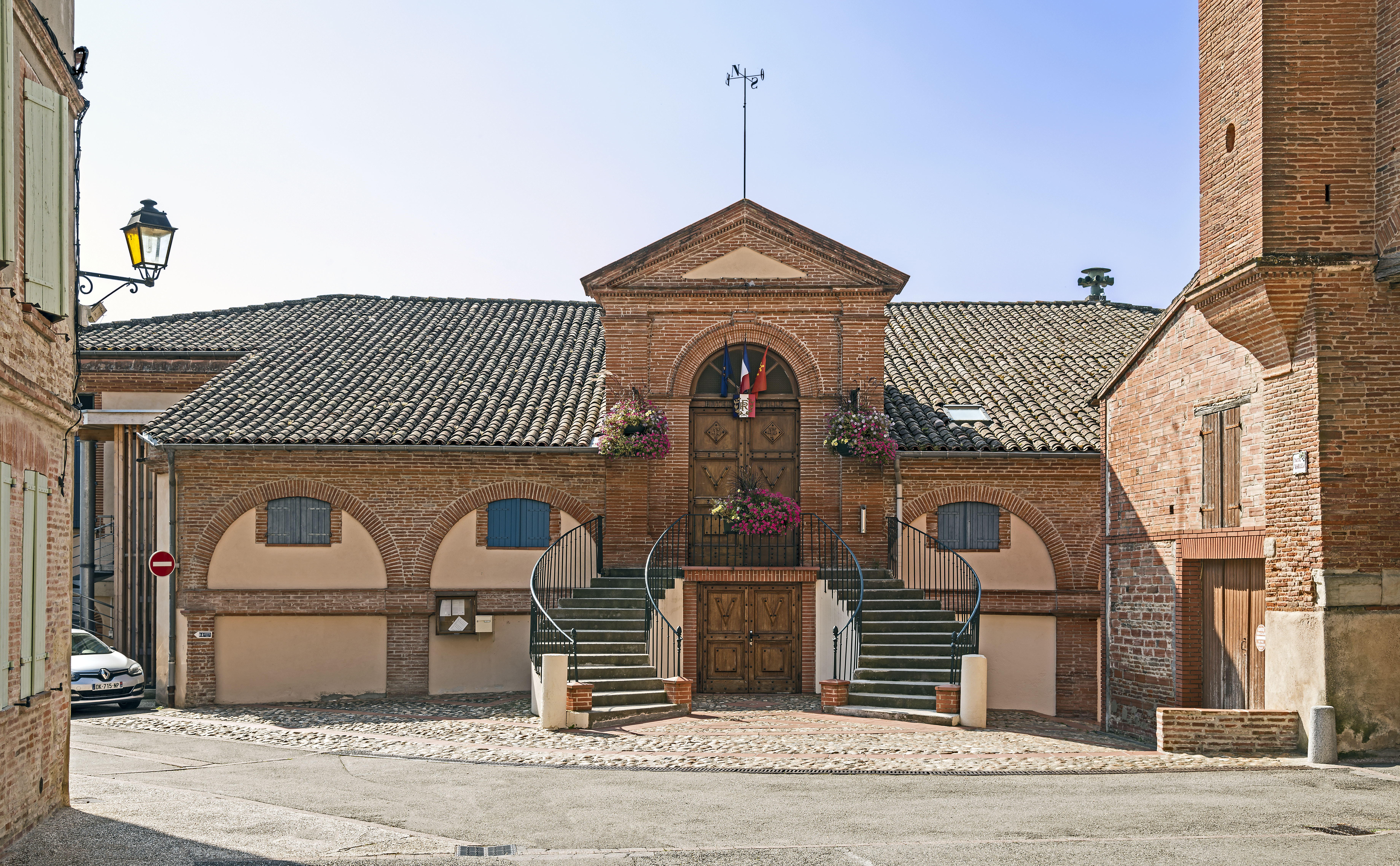 Verfeil, Haute-Garonne, France - Facade of town hall